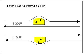 Station - Four Tracks Paired by Use